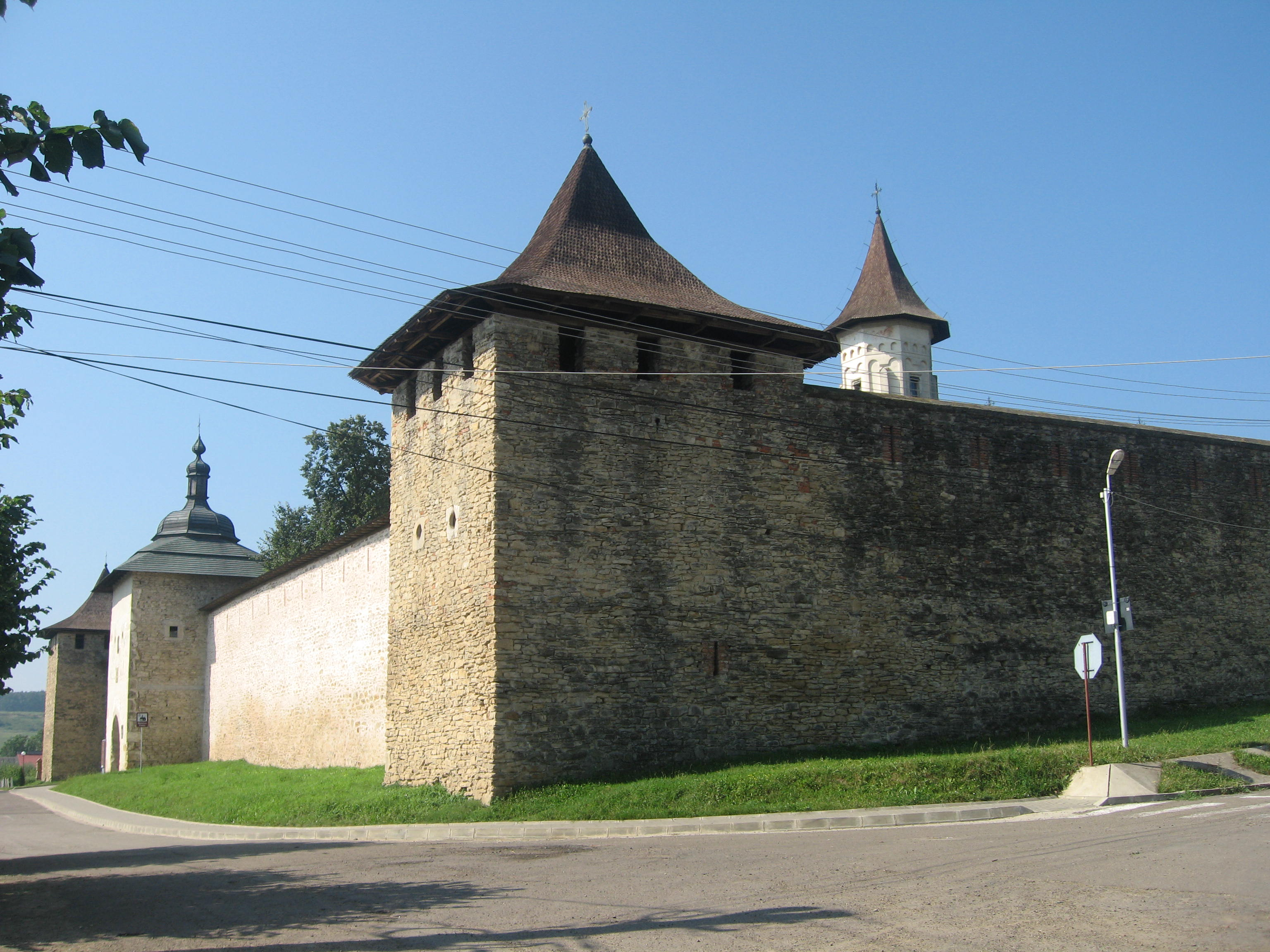 Probota Monastery